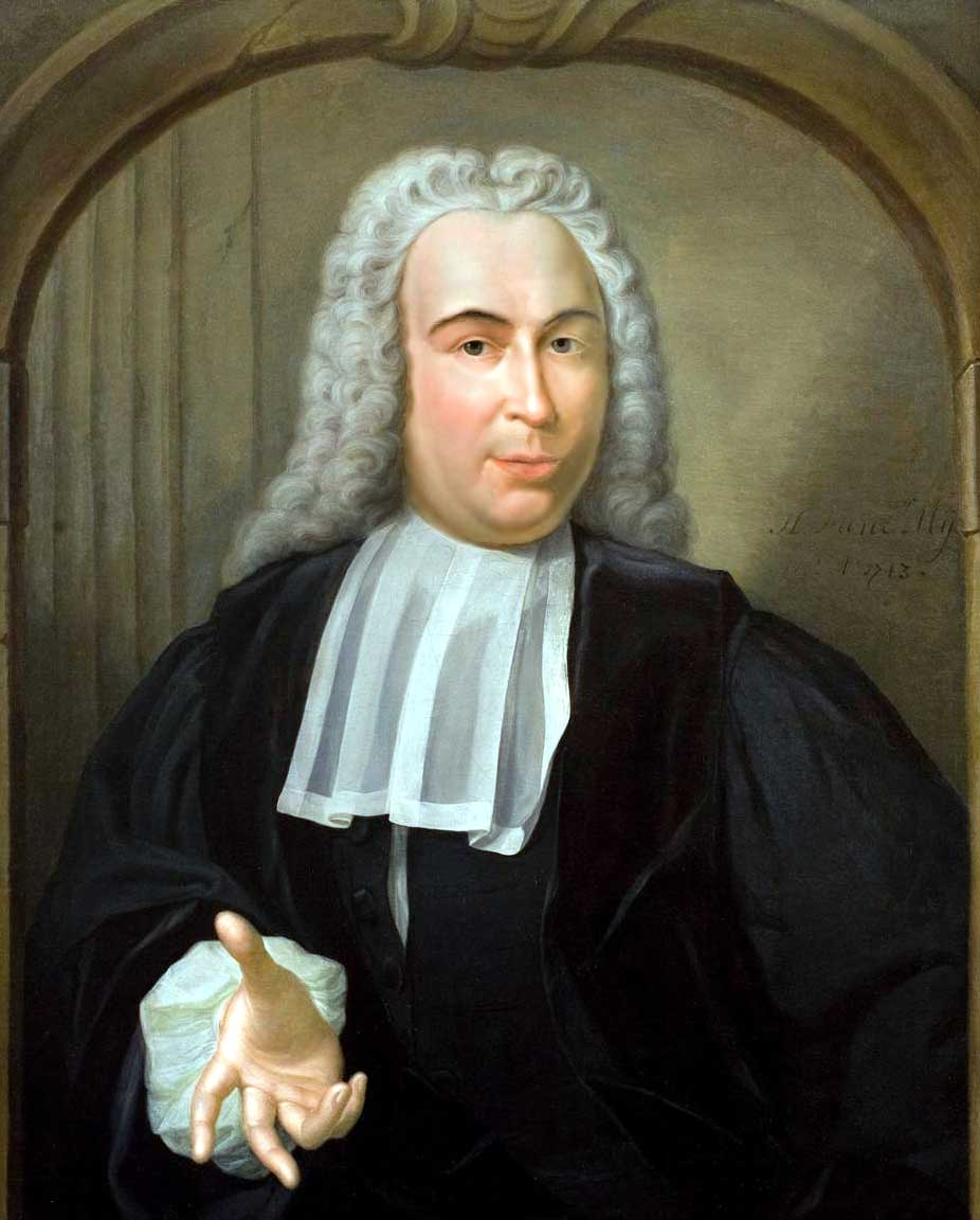 Johannes Ludlos (1711-1768) Dutch mathematician and anthropologist